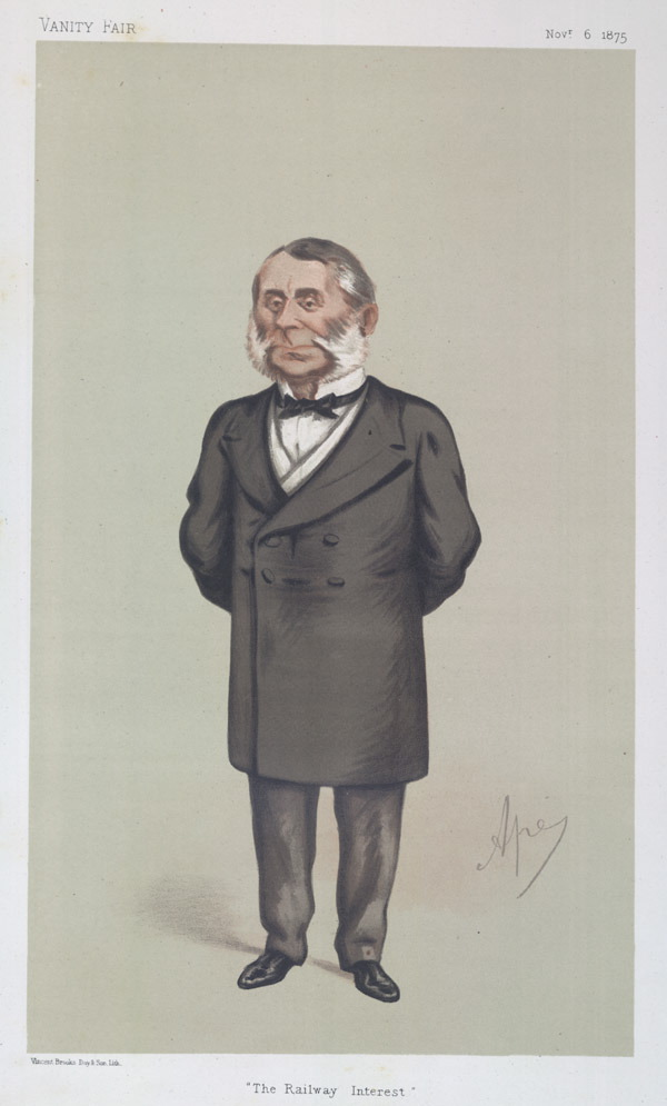 Statesmen No.216: Caricature of Sir EW Watkin MP. Caption reads: "The Railway Interest"